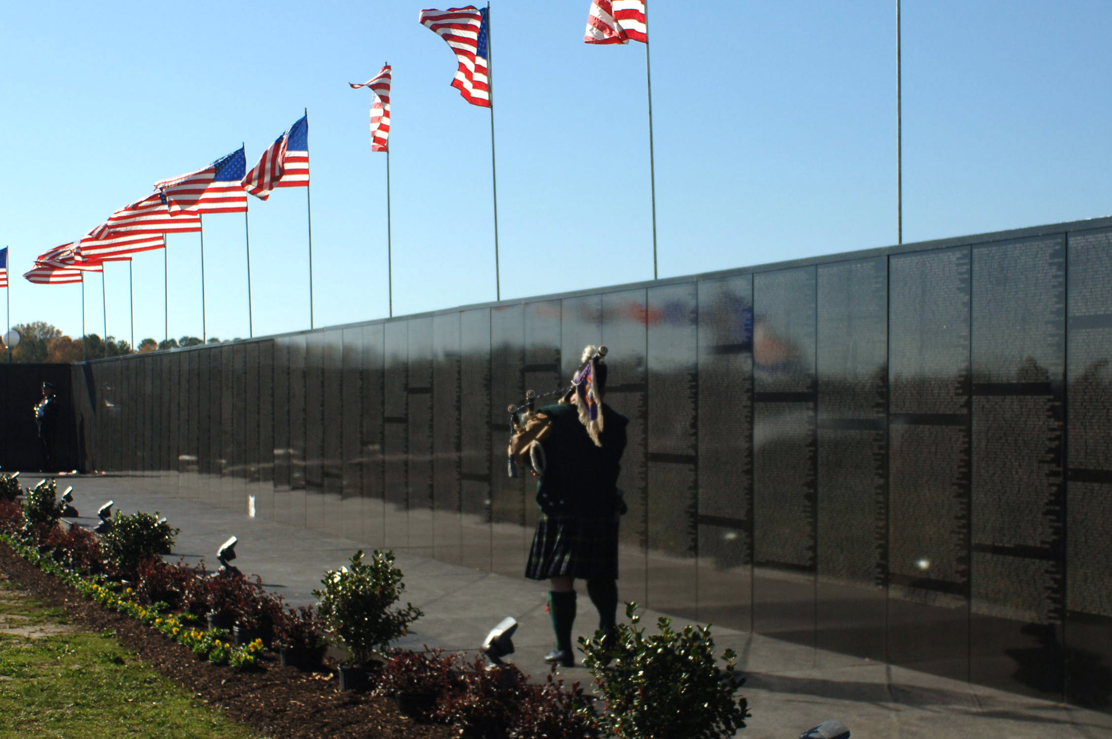 Virginia Beach, Va. (Nov. 17, 2006) - John Nugent, Vietnam veteran, plays the bagpipes as a part of the opening ceremony at the Dignity Memorial Vietnam Wall at Mt. Trashmore Park. The exhibit crisscrosses the country each year, allowing millions of visitors to see and touch the black, mirror-like surface inscribed with the names of more than 58,000 Americans who died or are missing in Vietnam. The wall honors all U.S. veterans and is dedicated to Vietnam veterans. U.S. Navy photo by Mass Communication Specialist Seaman Tristan Miller (RELEASED)